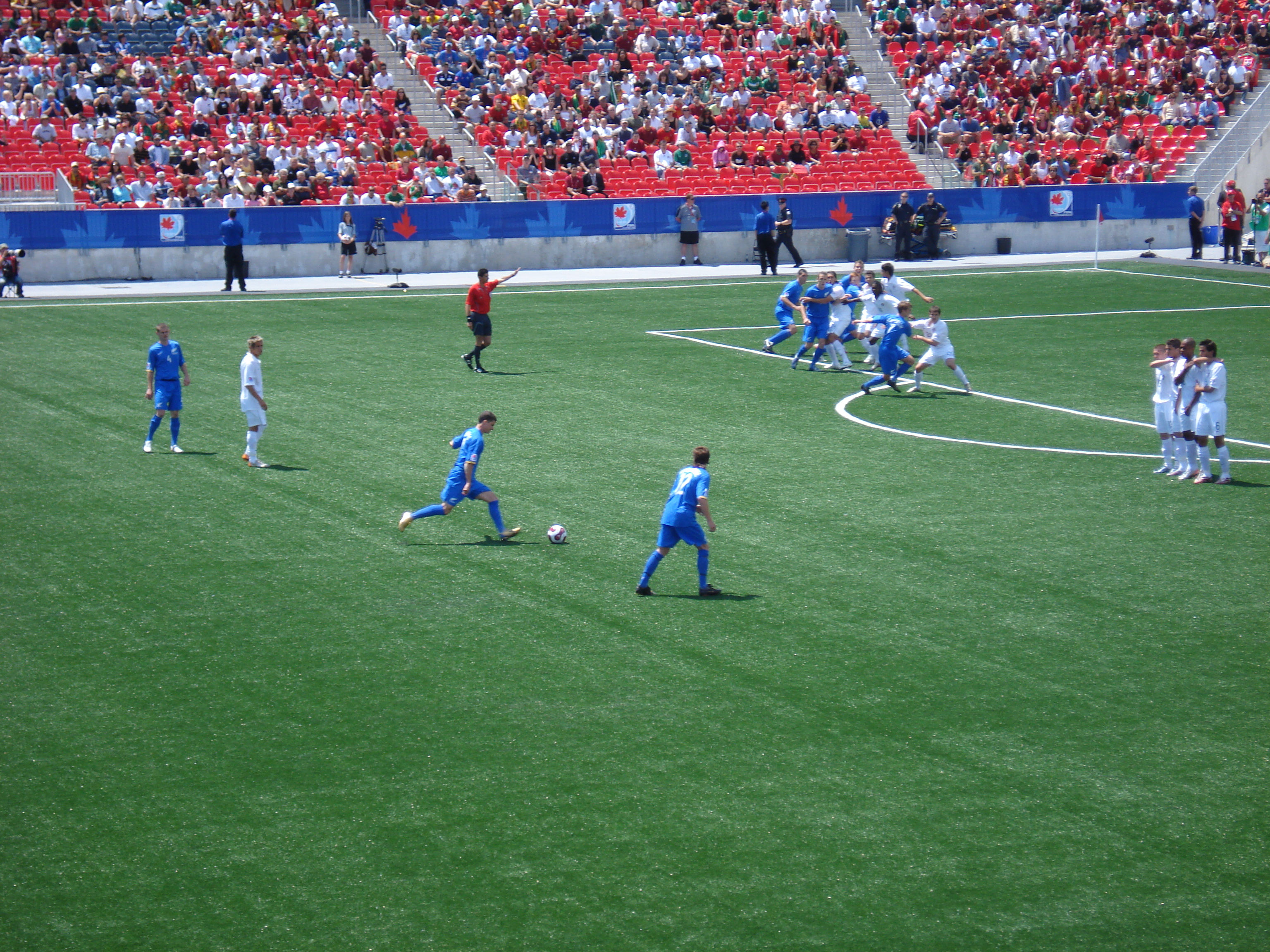 Portugal vs. New Zealand, FIFA U-20 World Cup 2007, Canada.New Zealand free kick